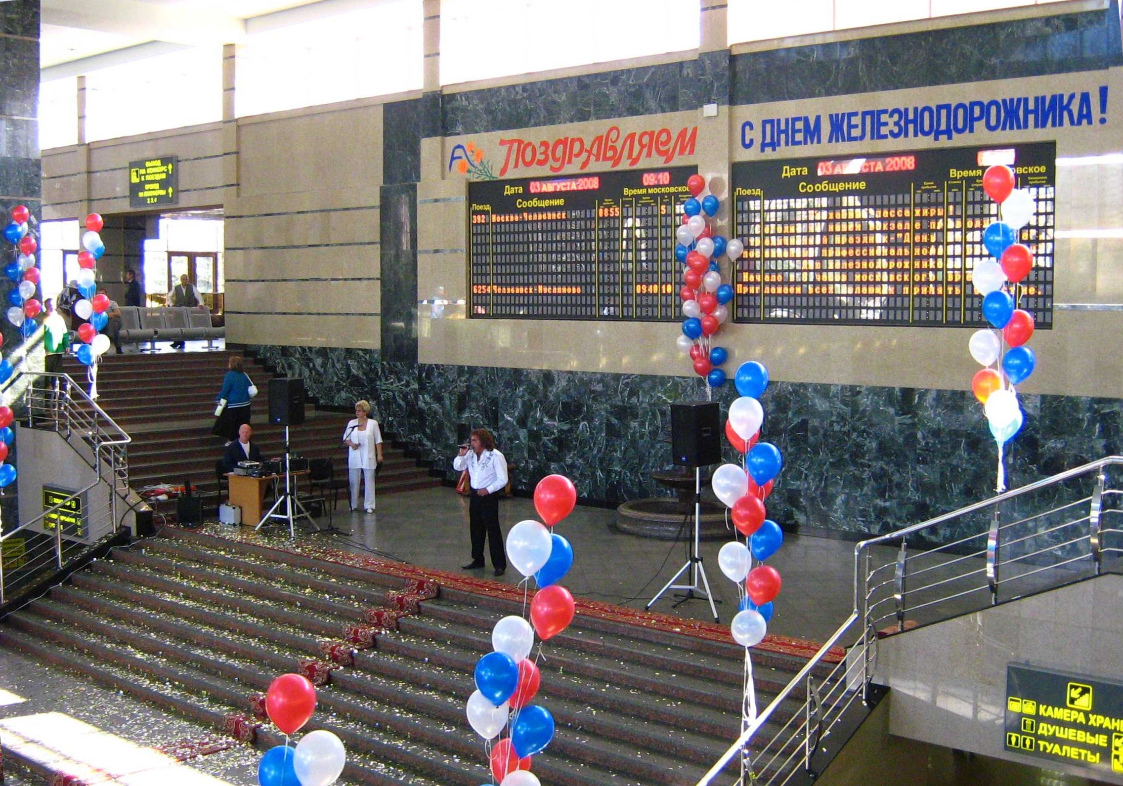 Day of the Railwayman at the station of the city of Chelyabinsk